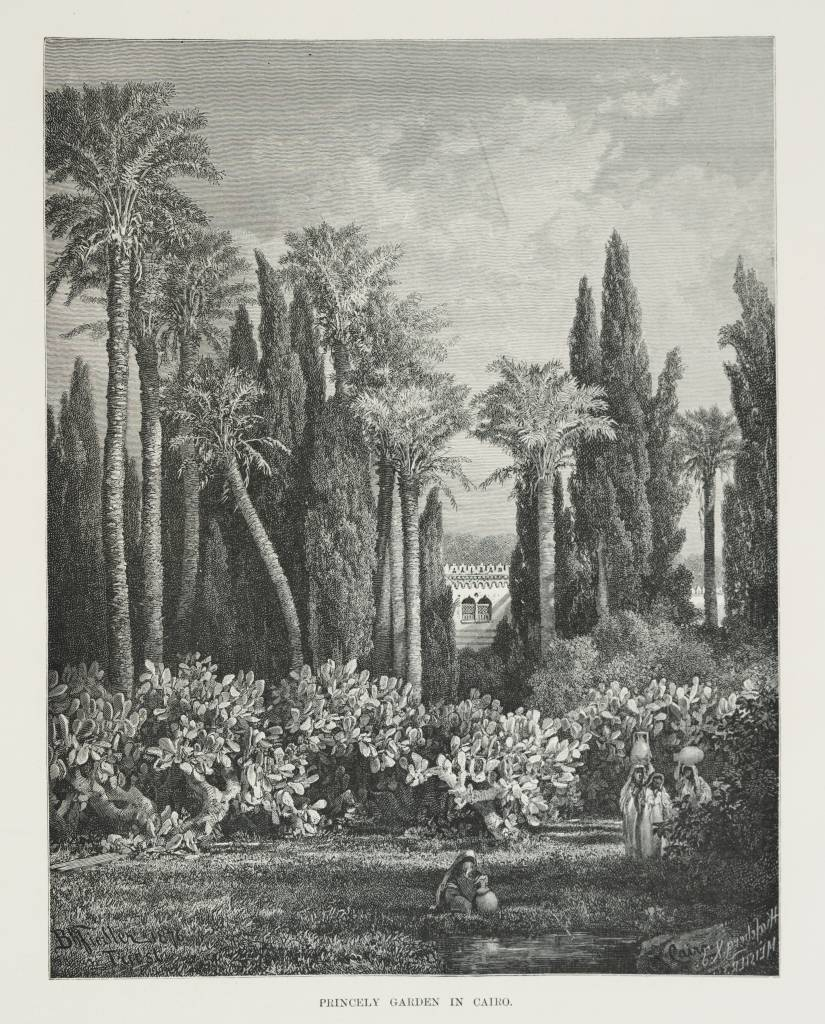 A lush garden, with several women gathering water.